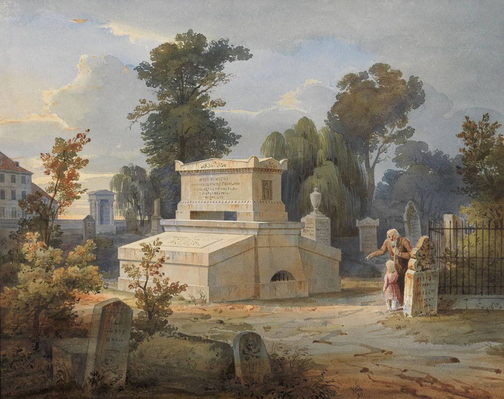 The churchyard St. Nicolai in Hanover 1835 by Rudolf Wiegmann. Watercolor: „Das Grab des Lederfabrikanten August Söhlmann auf dem St. Nicolai-Kirchhof in Hannover“. Collection: „Andenken meiner Zeitgenossen“ des Bernhard Hausmann im Herzog Anton Ulrich-Museum Braunschweig ZL-Nr. 96/7213. 20,6 x 25,8 cm, signed: „R. Wiegmann“, inscribed: „Auf St. Nicolai Kirchhof“, dated: „1835“.